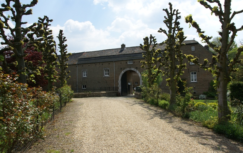 National monument no. 27950 - Hoeve Nekum, Nekummerweg 31, Maastricht, The Netherlands